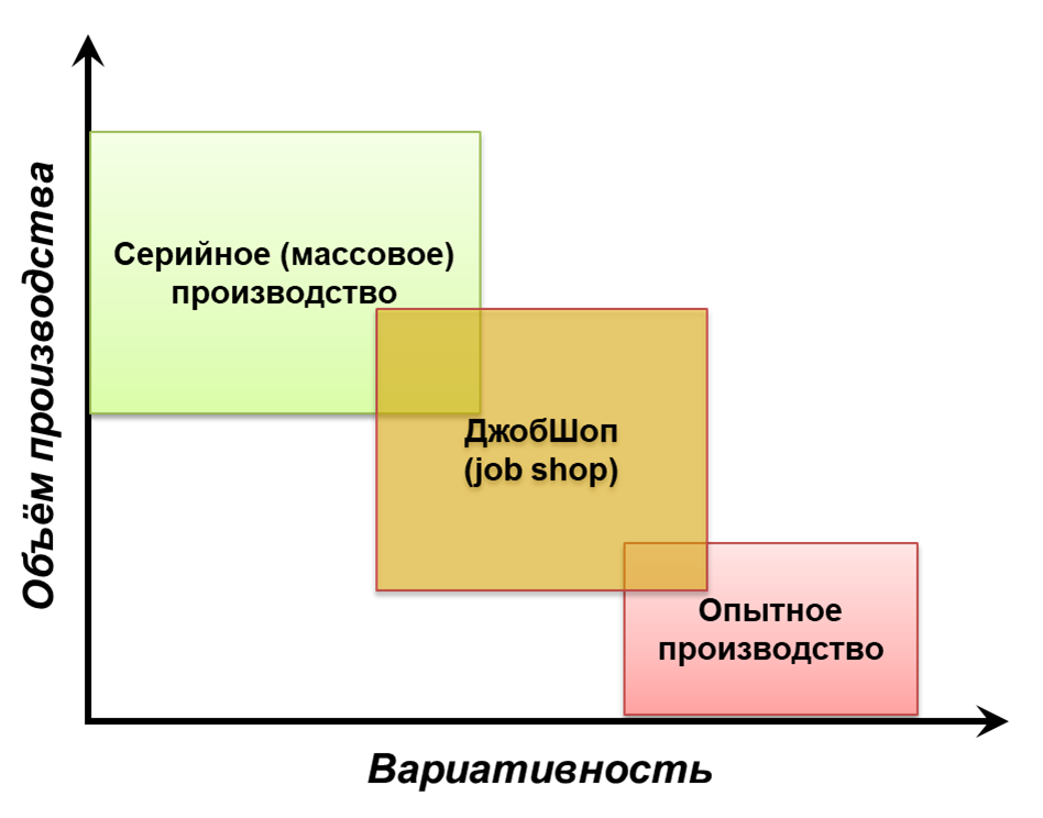 Variability vs volume production in a job shop vs batch- and mass-production